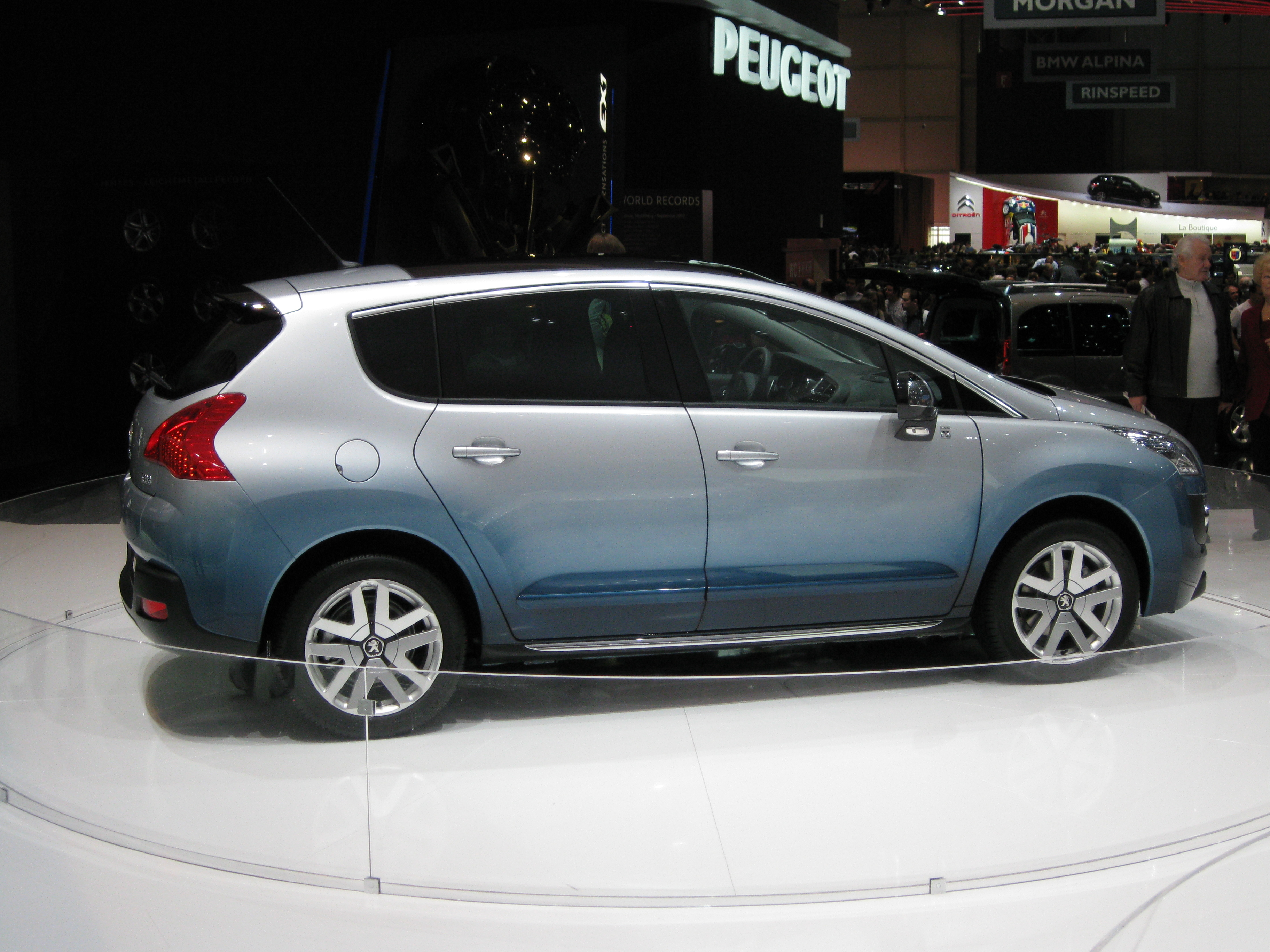 Geneva Motor Show 2011